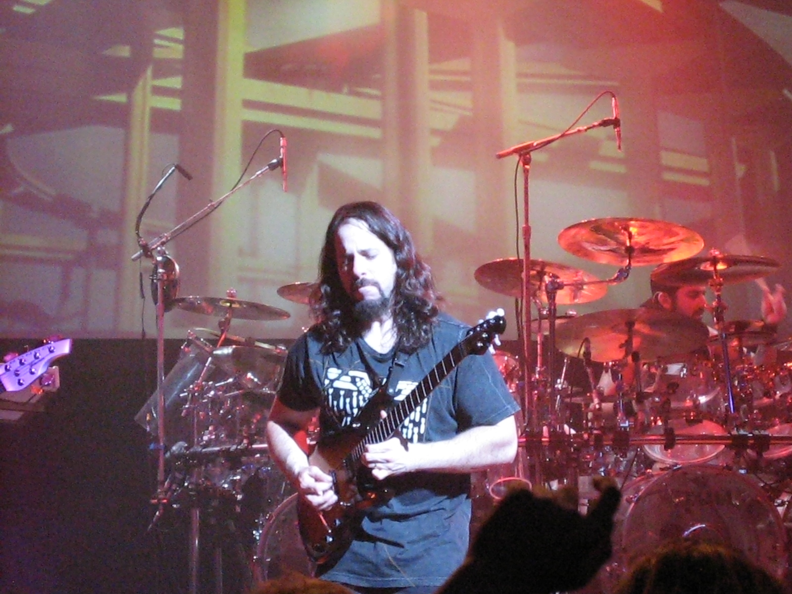 Dream Theater at Newport, 2007-11-09.